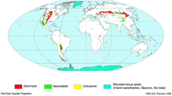 distribution of Kastanozems